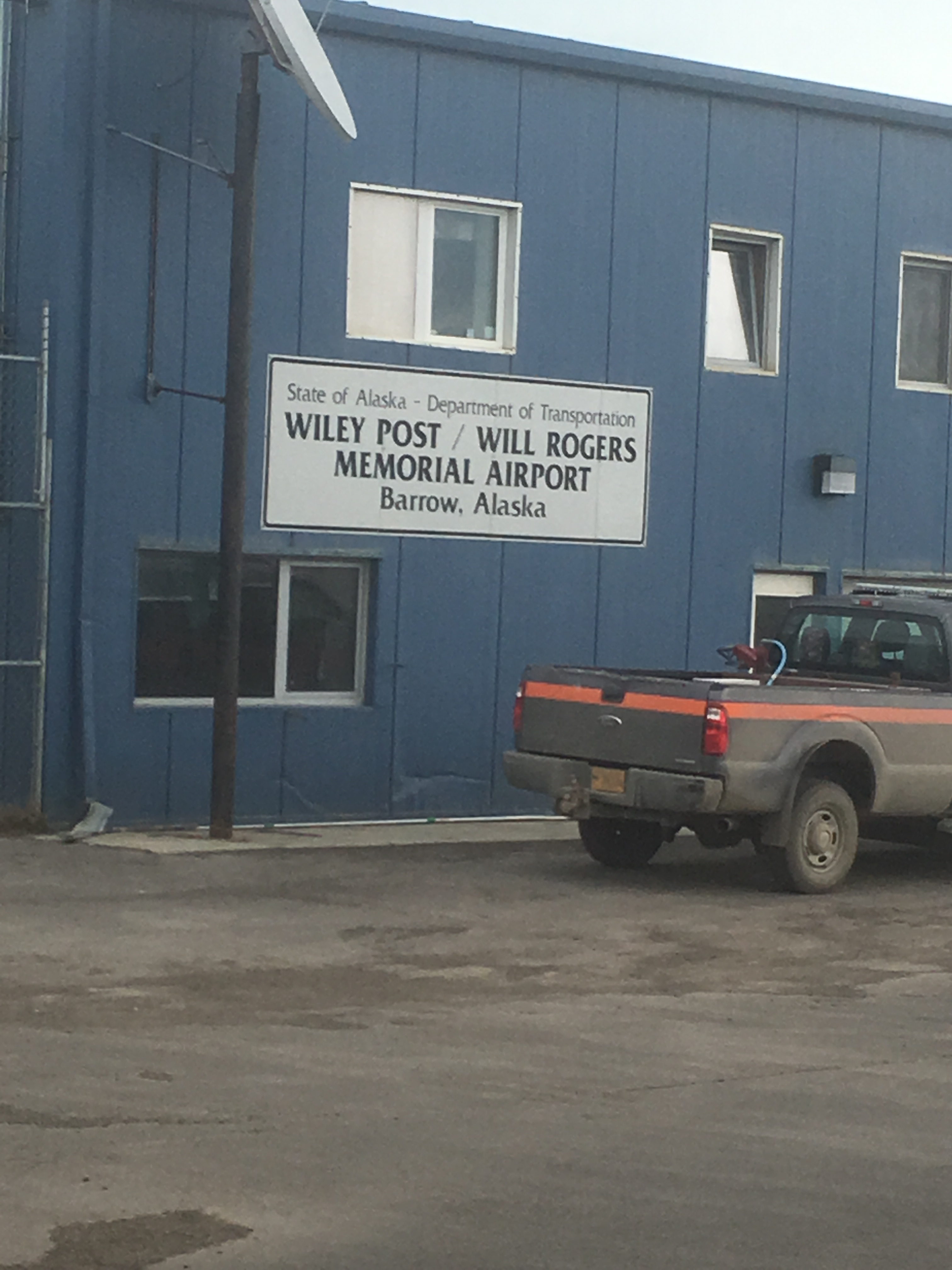 Barrow Airport Alaska from the street outside